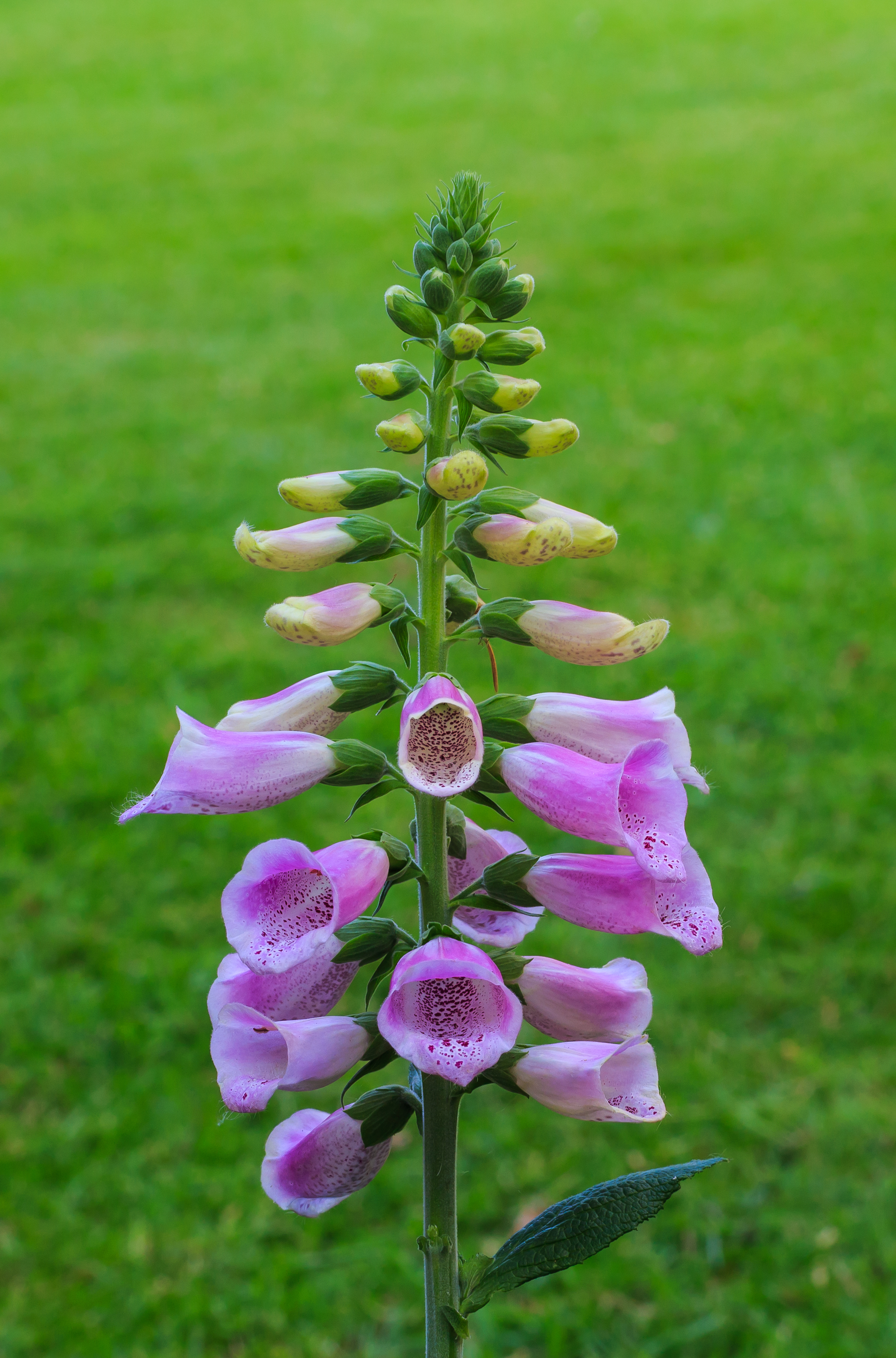 Flowers and buds of Foxglove (Digitalis purpurea). Location, Tuinreservaat Jonkervallei in the Netherlands.